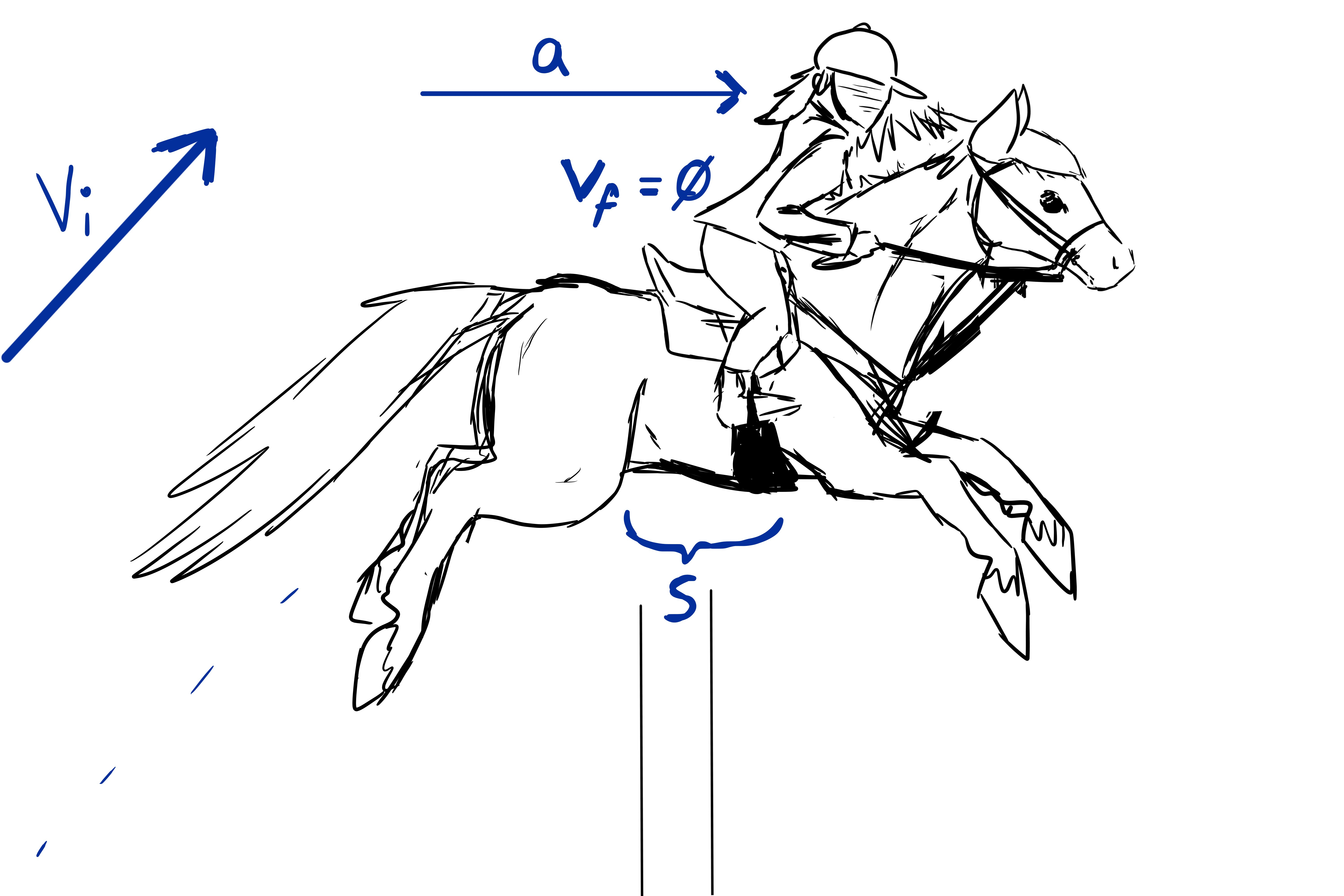 Diagram of necessary information de calculate the height of the summit reached in trajectory